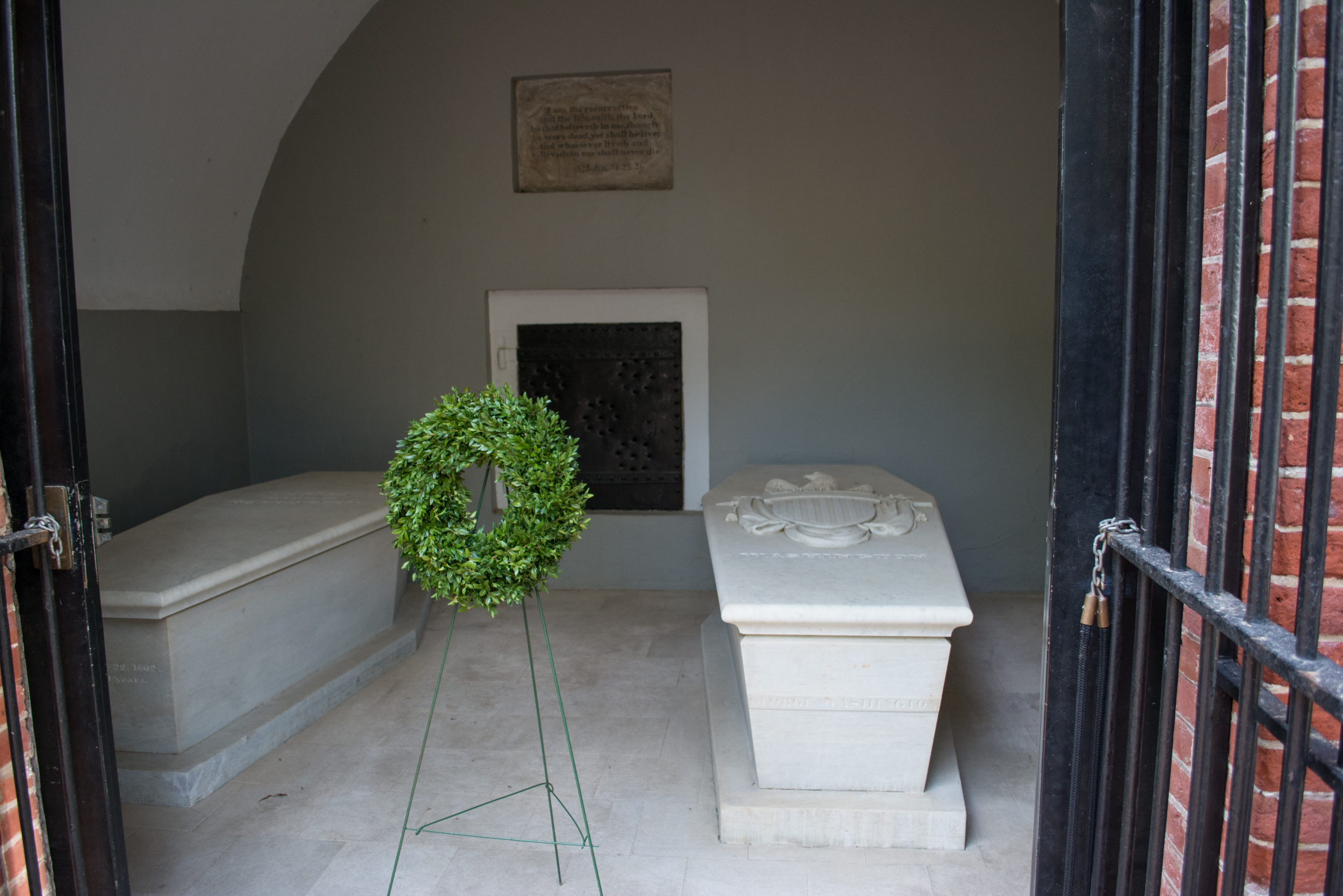 Interior of the Washington Family Tomb after a wreath-laying, at Mount Vernon, the home of George Washington, near Mount Vernon, Virginia, in the United States.